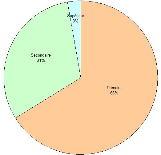 Education level of the population of Tougan (Burkina Faso).